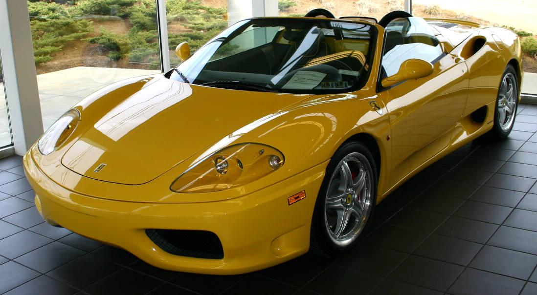 2001 Ferrari 360 F1 Spyder photographed by DougW of .